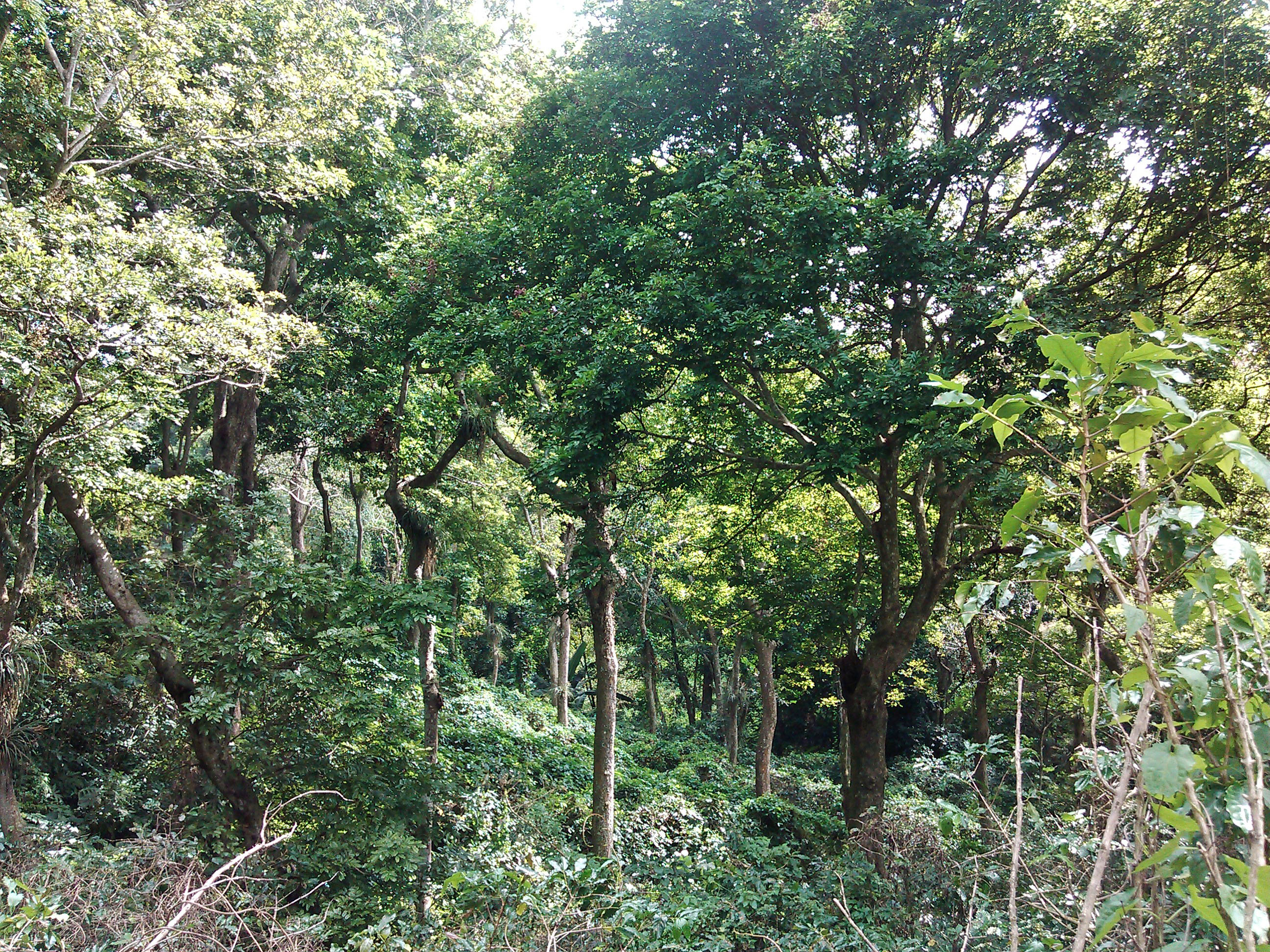 A shade-grown coffee plot helps protect water quality, provides higher yields, reduces irrigation, and even provides wildlife habitat. Photo credit Edwin Mas.